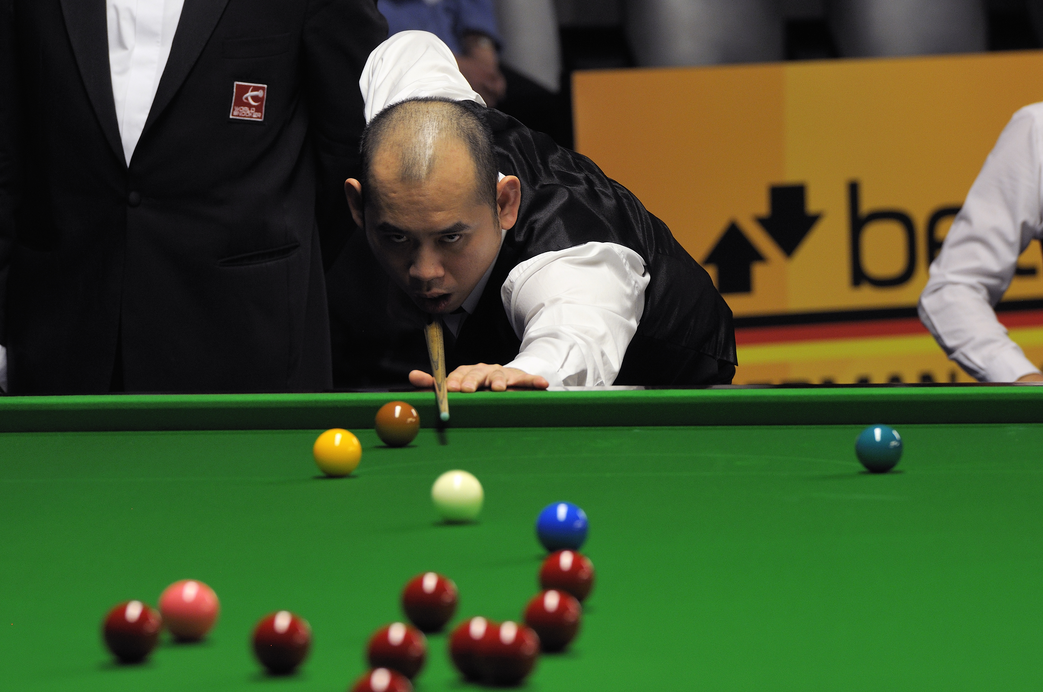 Picture taken in Berlin during the Snooker German Masters in 2013. Dechawat Poomjaeng.